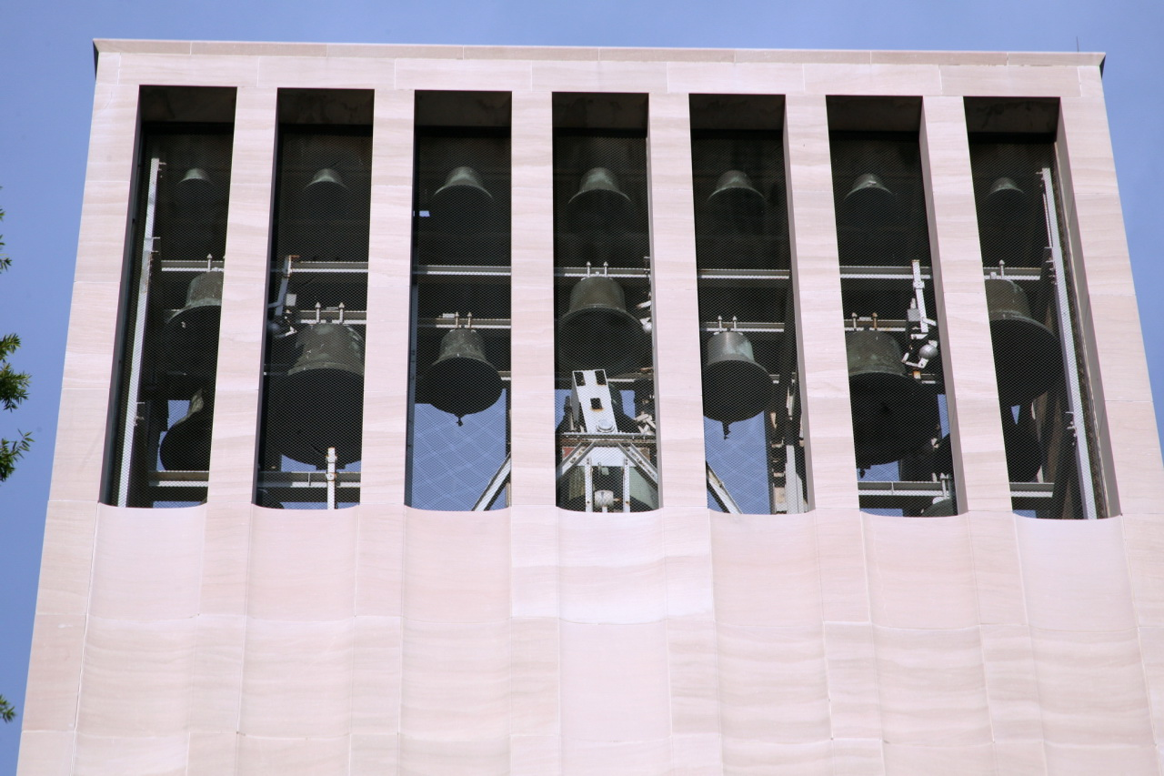 The twenty-seven bells in the upper part of the tower are among the finest in the world and were cast in the Paccard Bell Foundry in Annecy, France. The largest, or bourdon bell, weighs 7 tons. The bells are well matched and produce rich, resonant tones. At the dedication ceremony on April 14, 1959, former President Herbert Hoover stated, "When these great bells ring out, it will be a summons to integrity and courage." The bells are automatically operated to strike the hour and sound on the quarter hour; they can also be played manually.